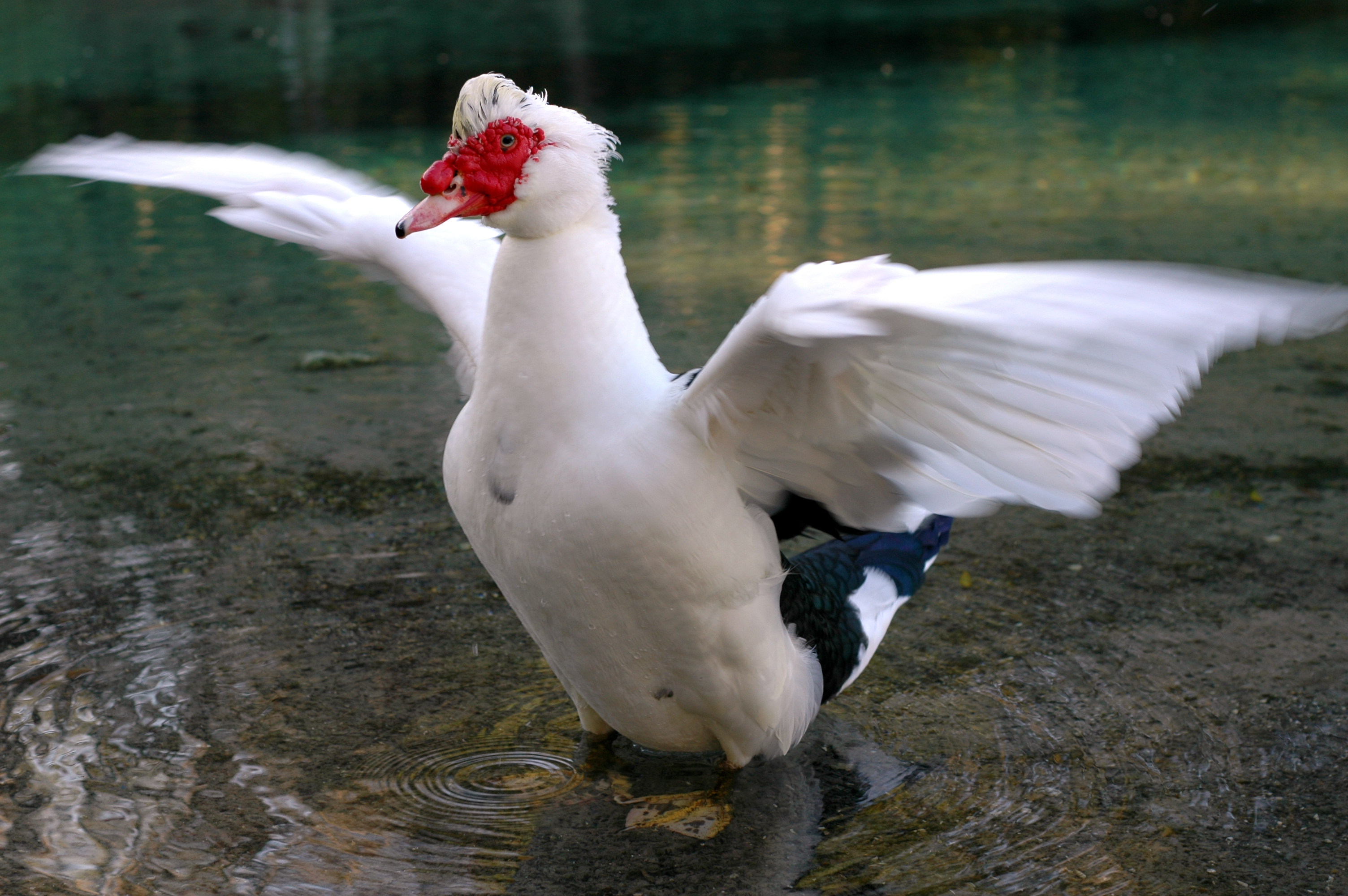 Muscovy Duck (Cairina moschata) with wings outstretched